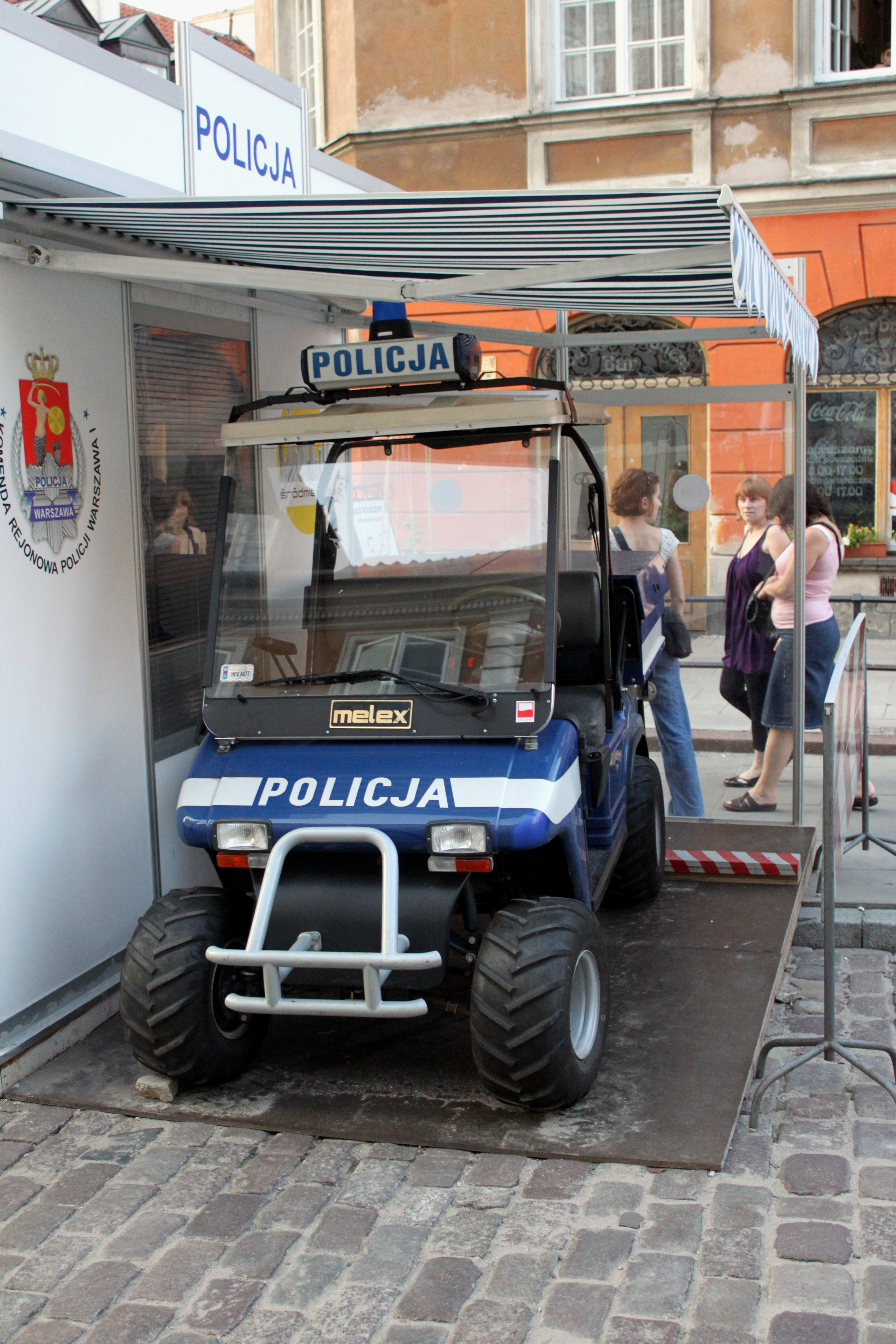 Police Melex in Warsaw, Poland.